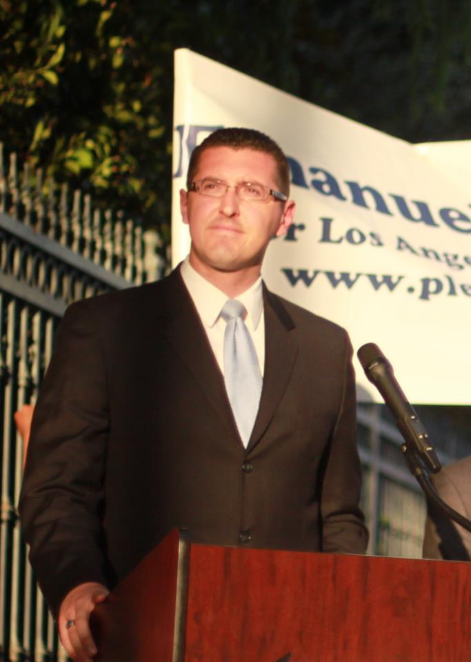 This is a photograph of Emanuel Pleitez, a candidate for Los Angeles Mayor, at a political rally.